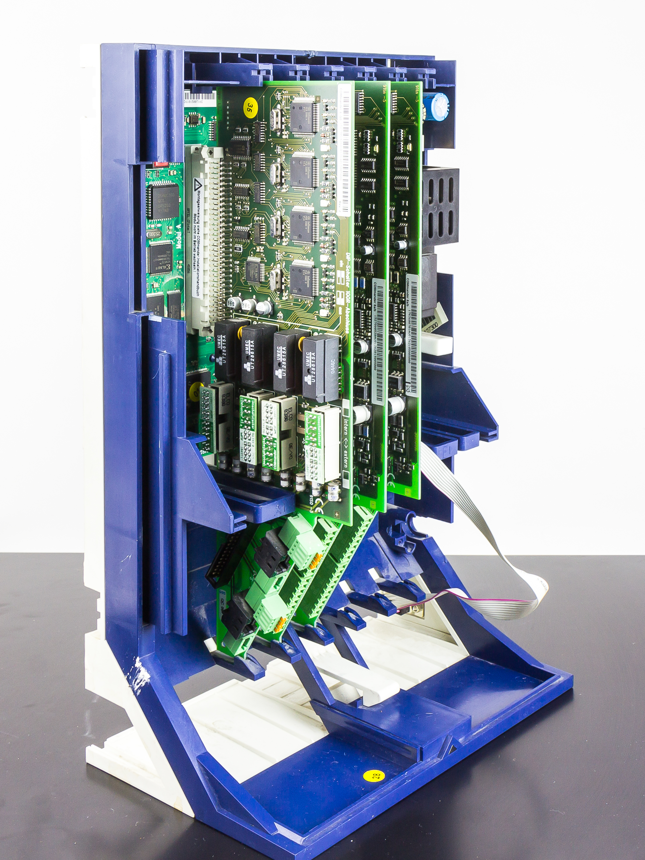 Auerswald COMander Basic - Business telephone system. Case opened